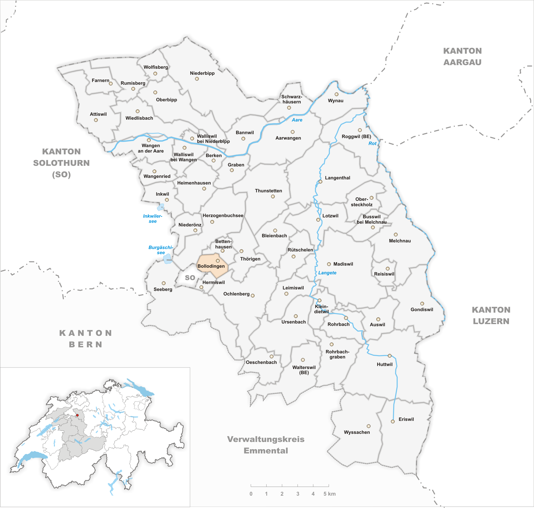 Municipality Bollodingen